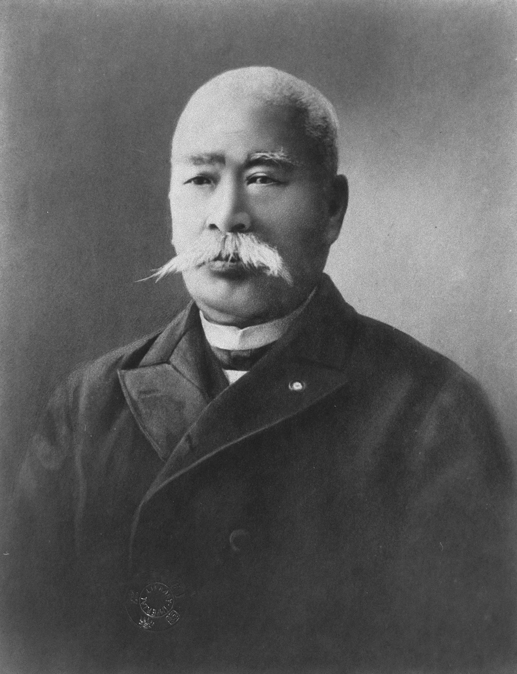 Portrait of Tani Tateki (谷干城, 1837 – 1911)